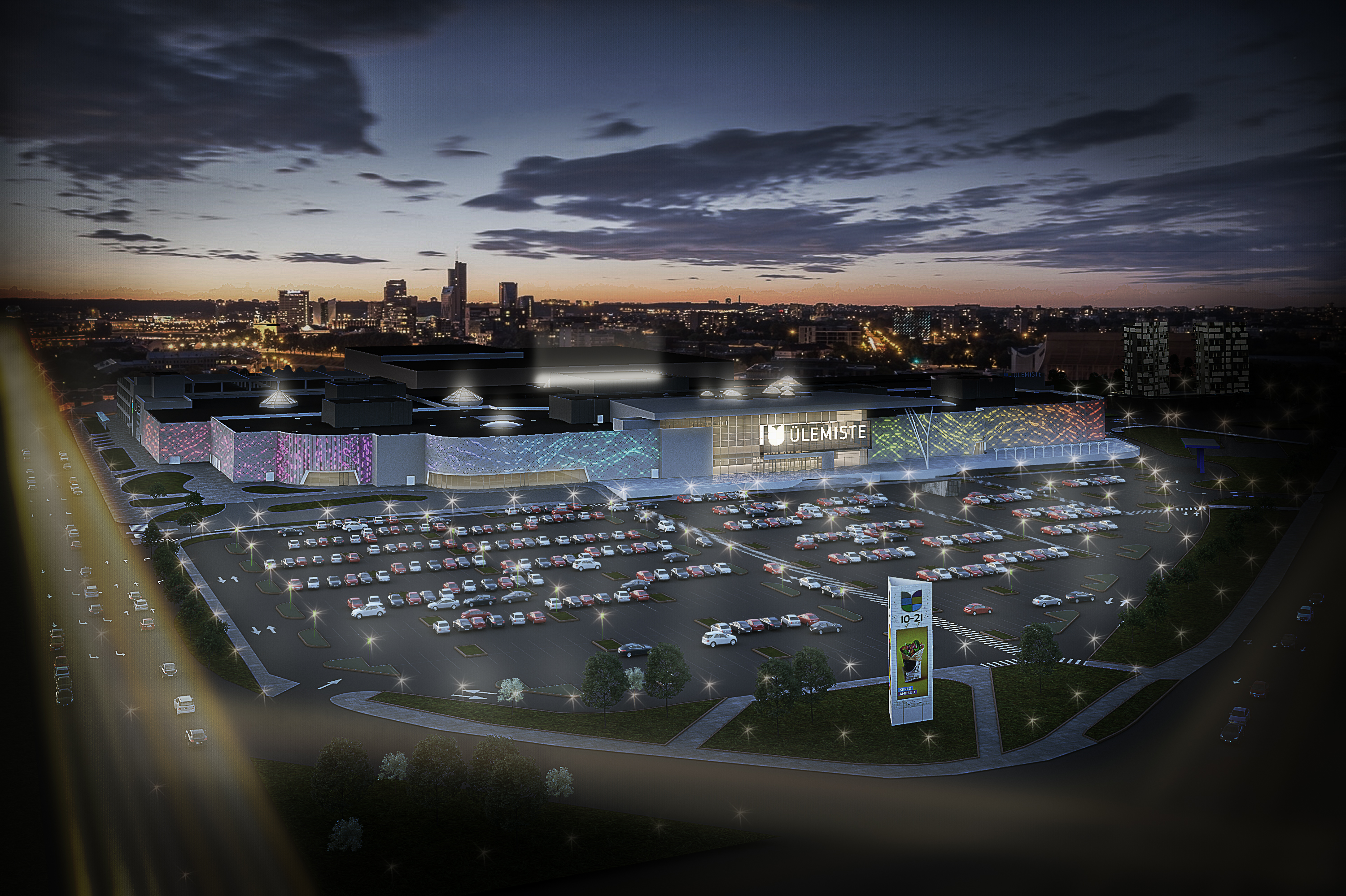 Ülemiste center, the largest in Estonia.